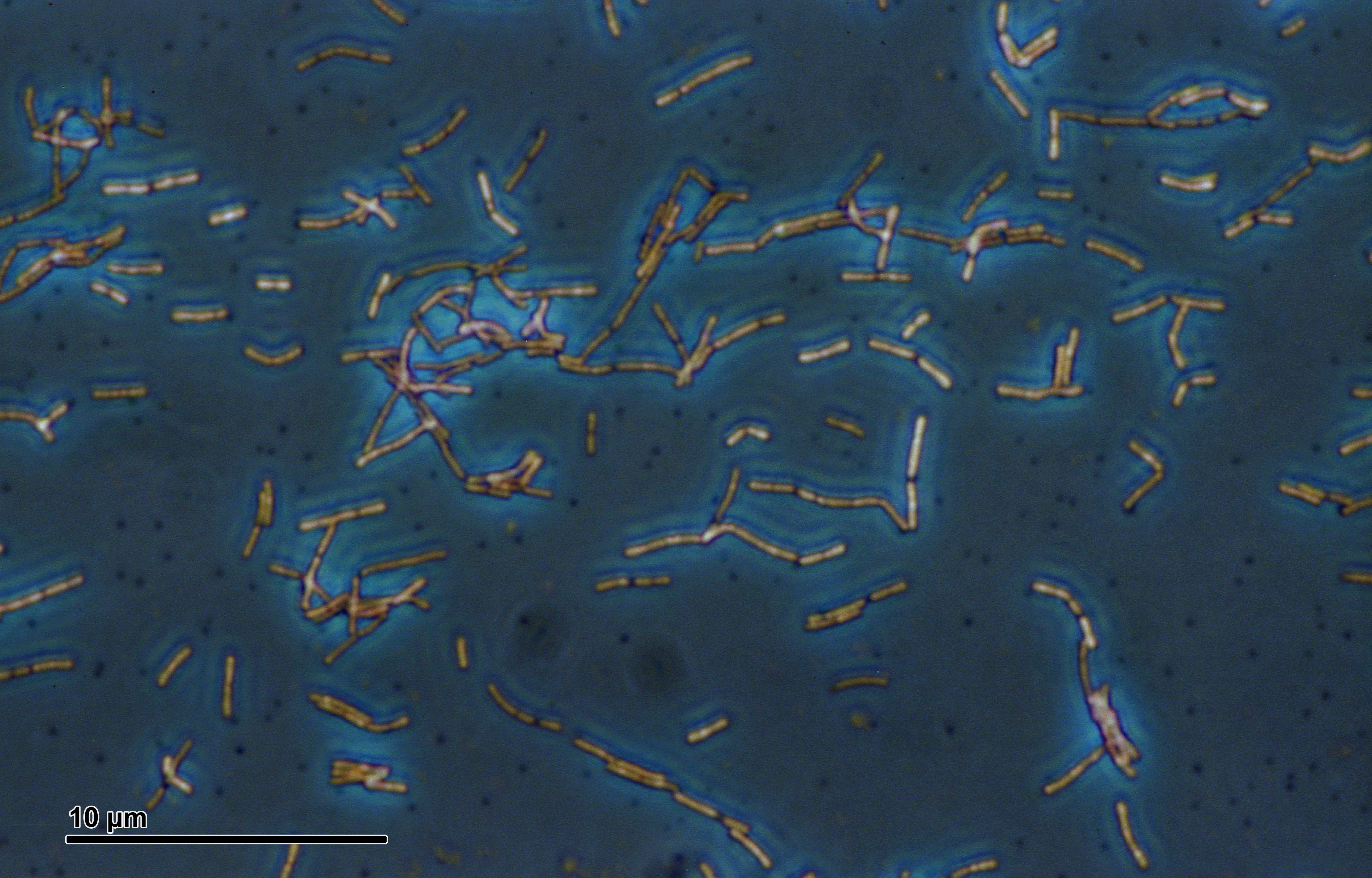 Lactobacillus acidophilus (Lactobacillus acidophilus): Lactobacillus acidophilus (Döderlein bacillus). Stain: Gram. Optical microscopy technique: Negative phase contrast. Magnification: 6000x (for picture width 26 cm ~ A4 format).